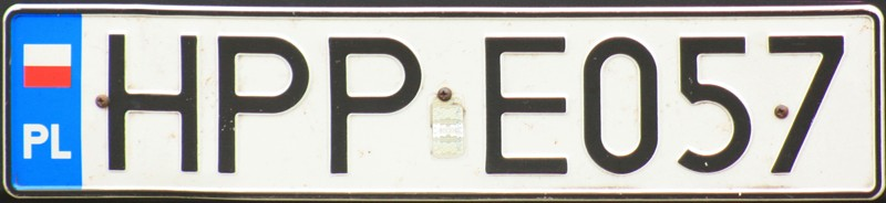 Polish police registration plate (series 2000-2006).